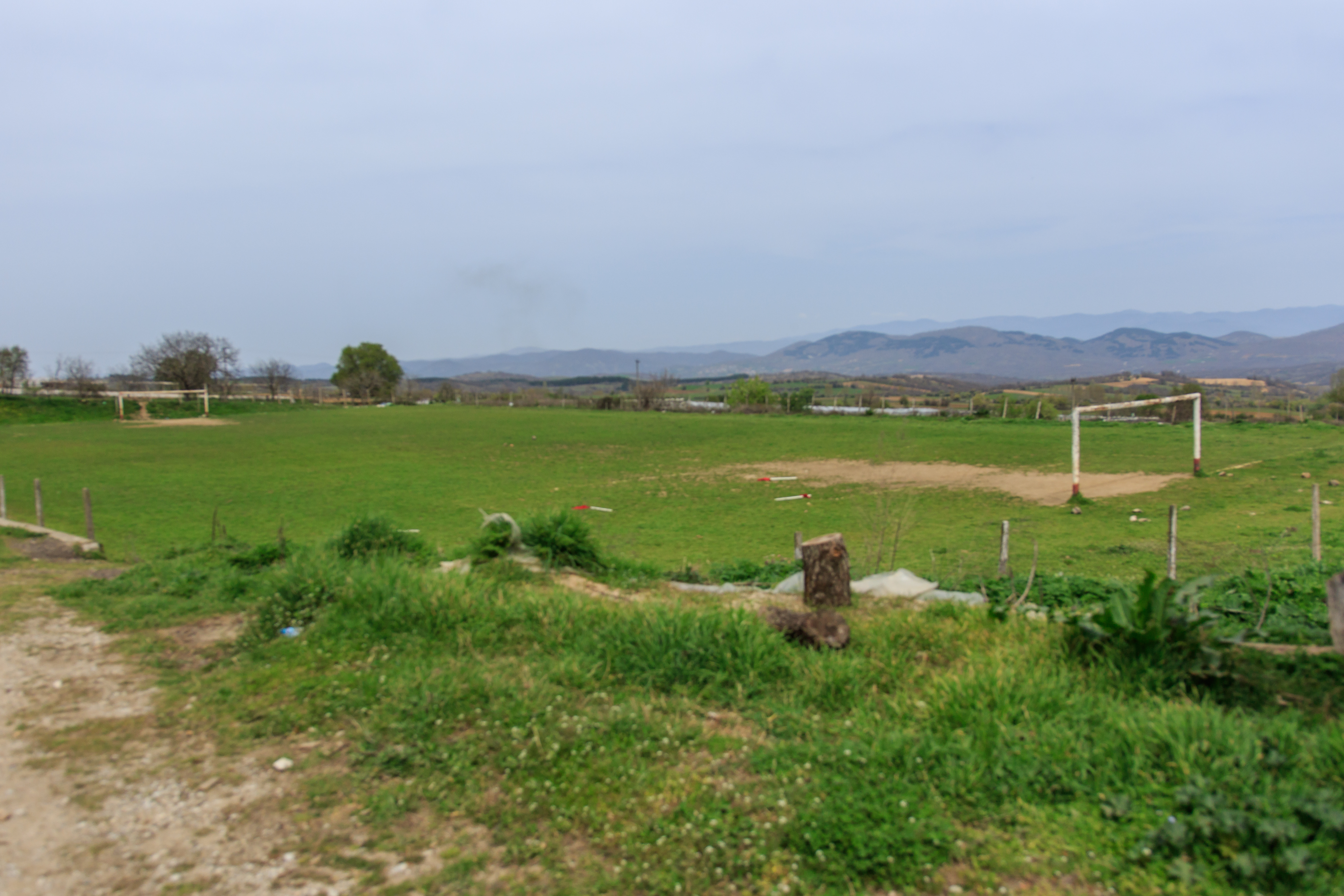 Football playground in the village Konče